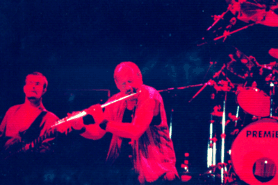 Jethro Tull in concert (Naples, 1997) - Foto by pino_alpino